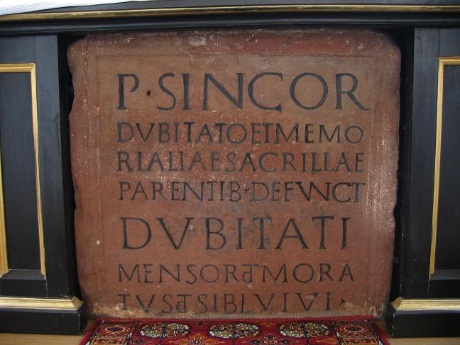 Keßlingen, Church, roman stone